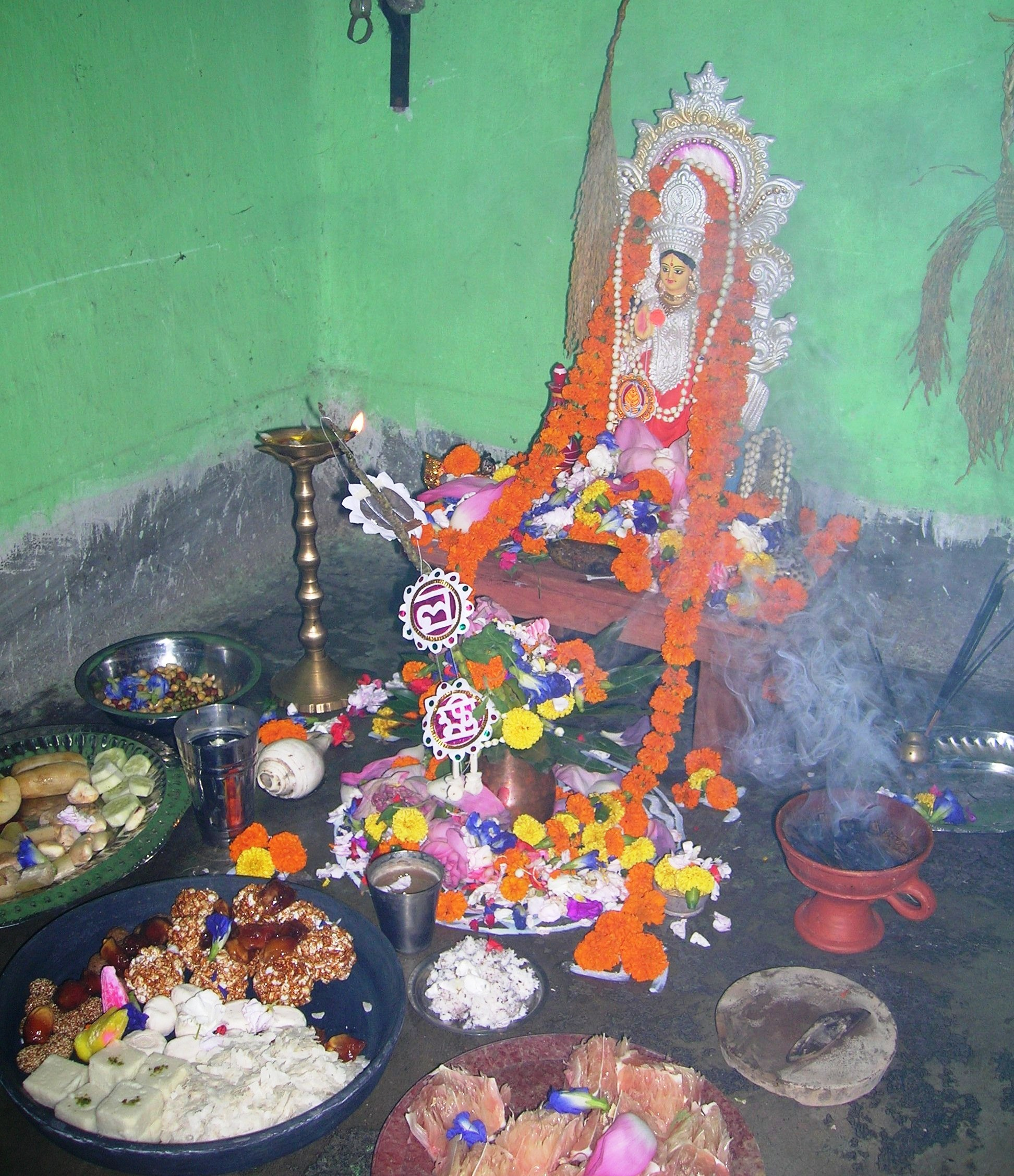 Lakshmi Puja